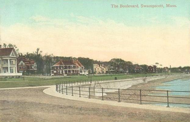 Lynn Boulevard, Lynn, MA, looking toward Swampscott; from a 1910 postcard.